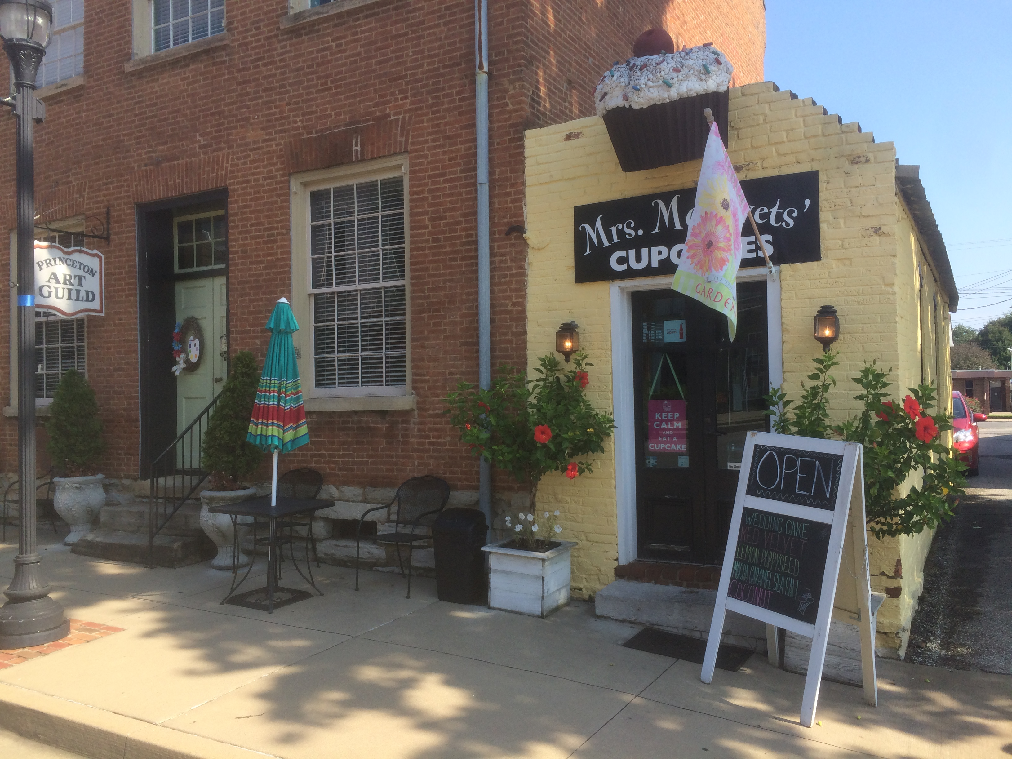 Art Guild and Local Business